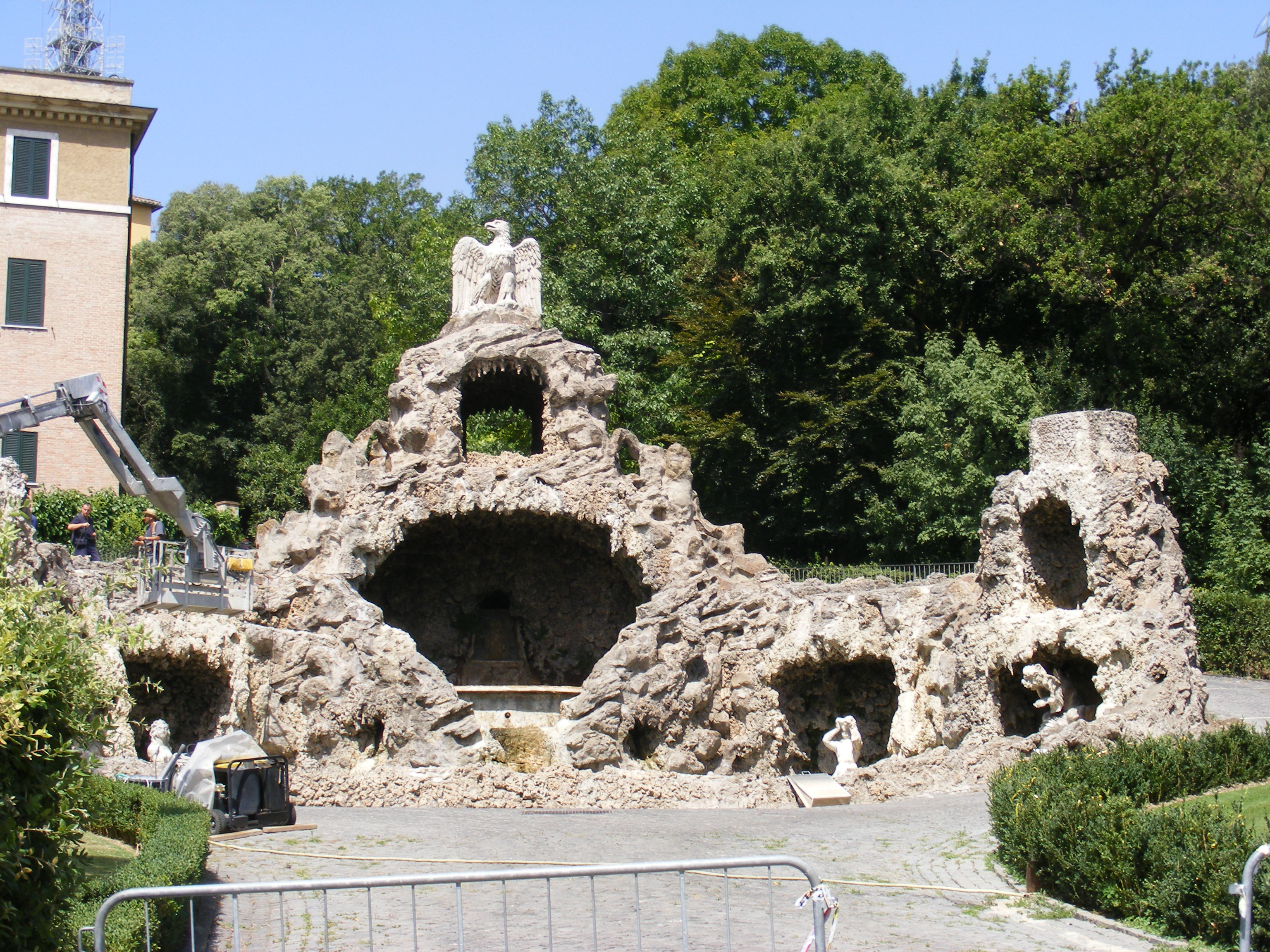 'Fountain of the Eagles' grotto fountain, and gardens in Vatican City (Giardini Vaticani).